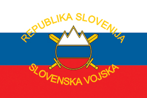 Flag of the Slovenian Armed Forces.